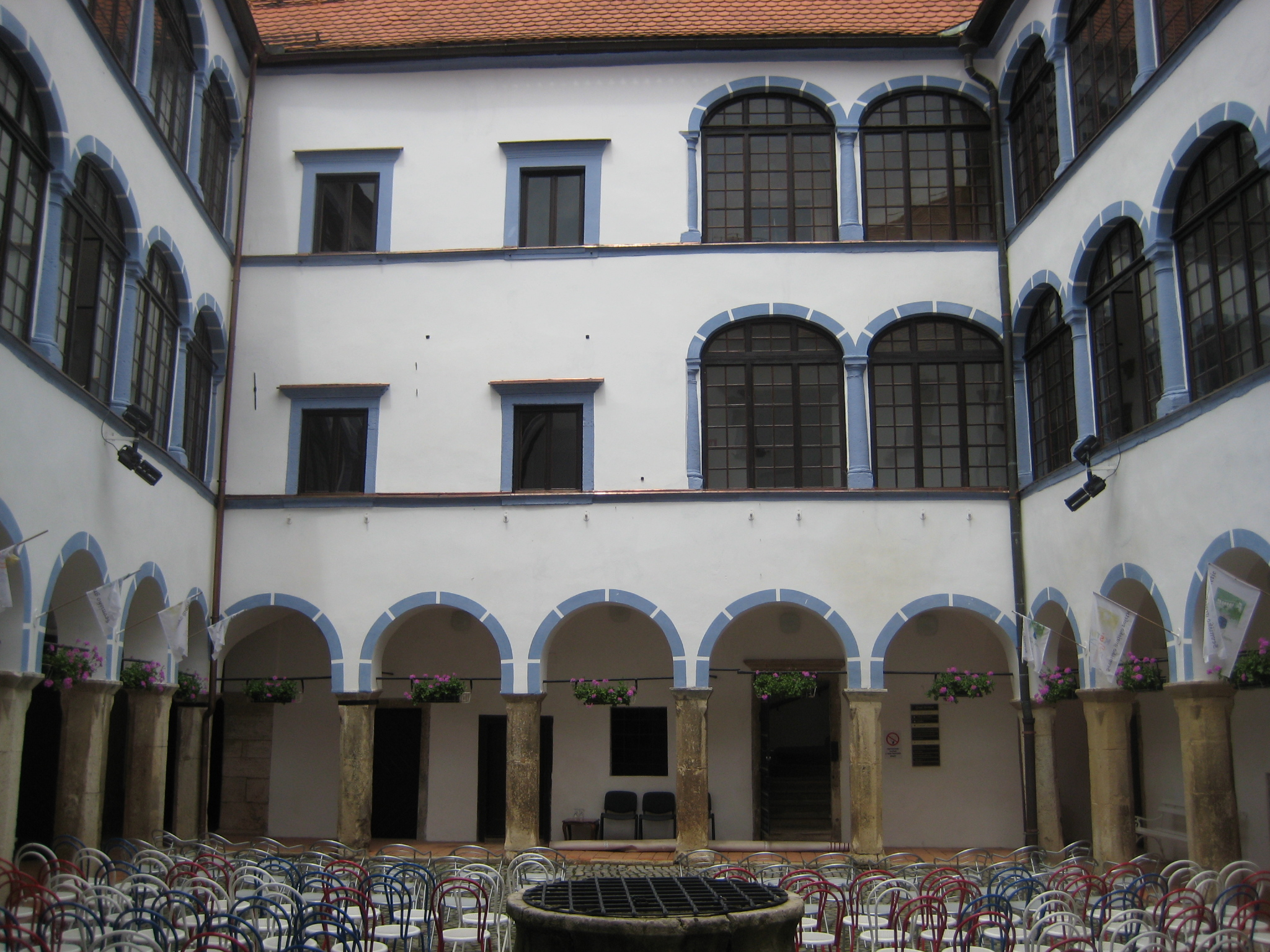 Sevnica Castle, Slovenia